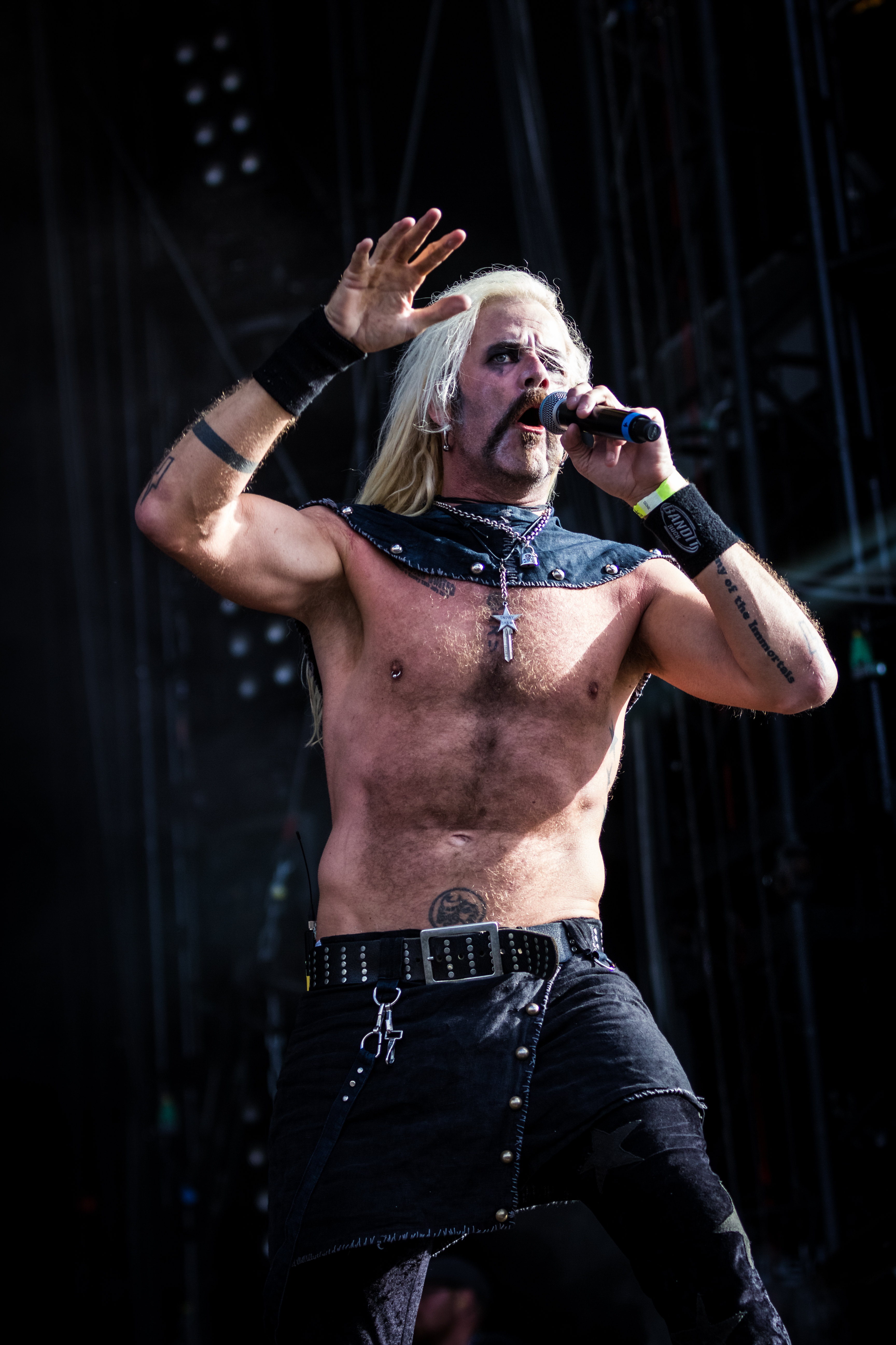 Therion - Wacken Open Air 2016